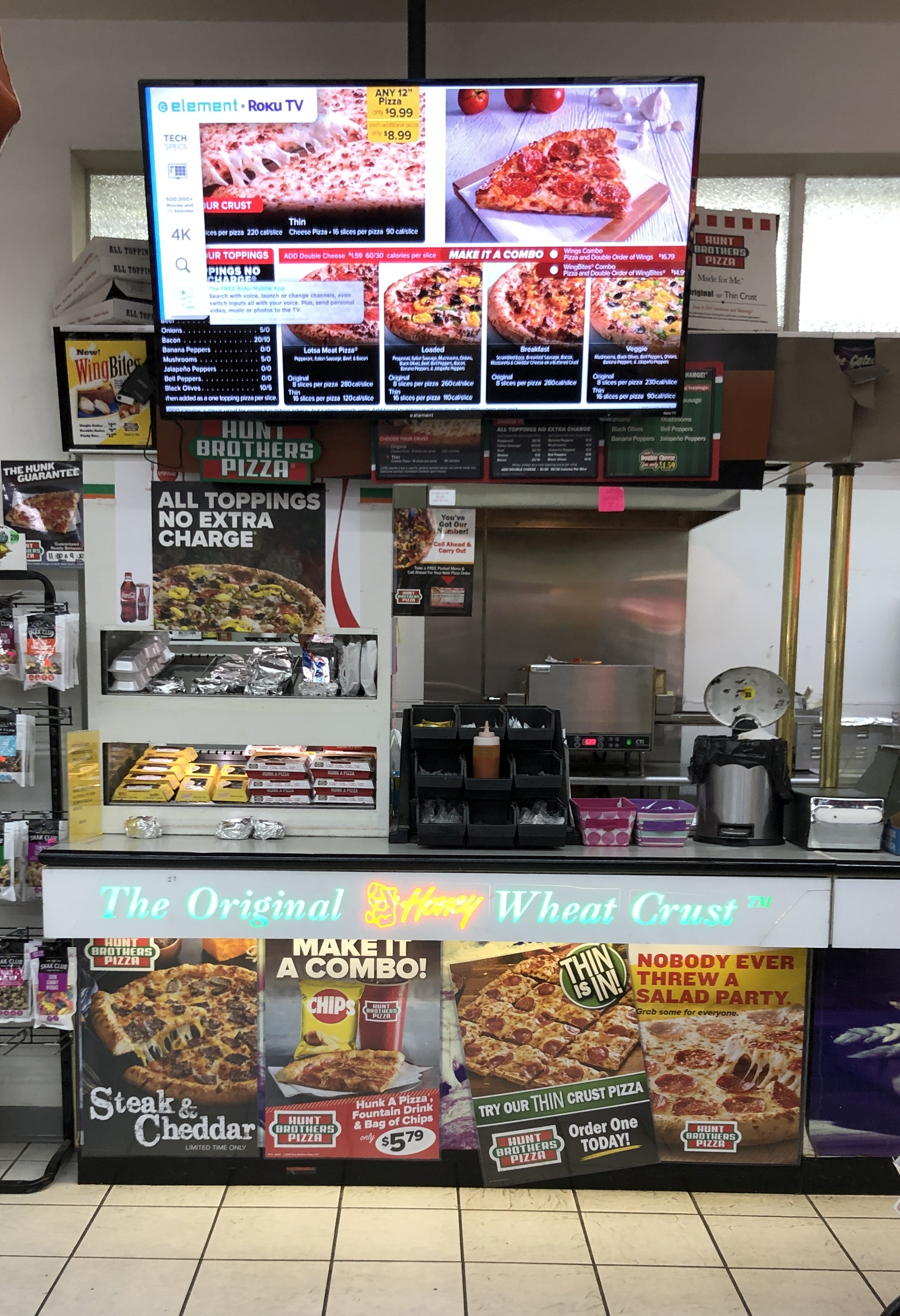 A Hunt Brothers Pizza in White, GA